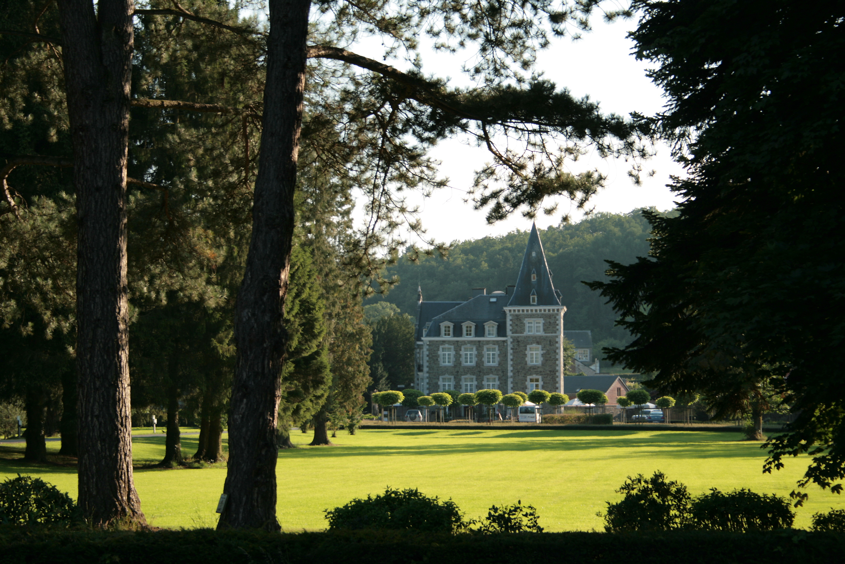 Rendeux (Belgium), the castle.